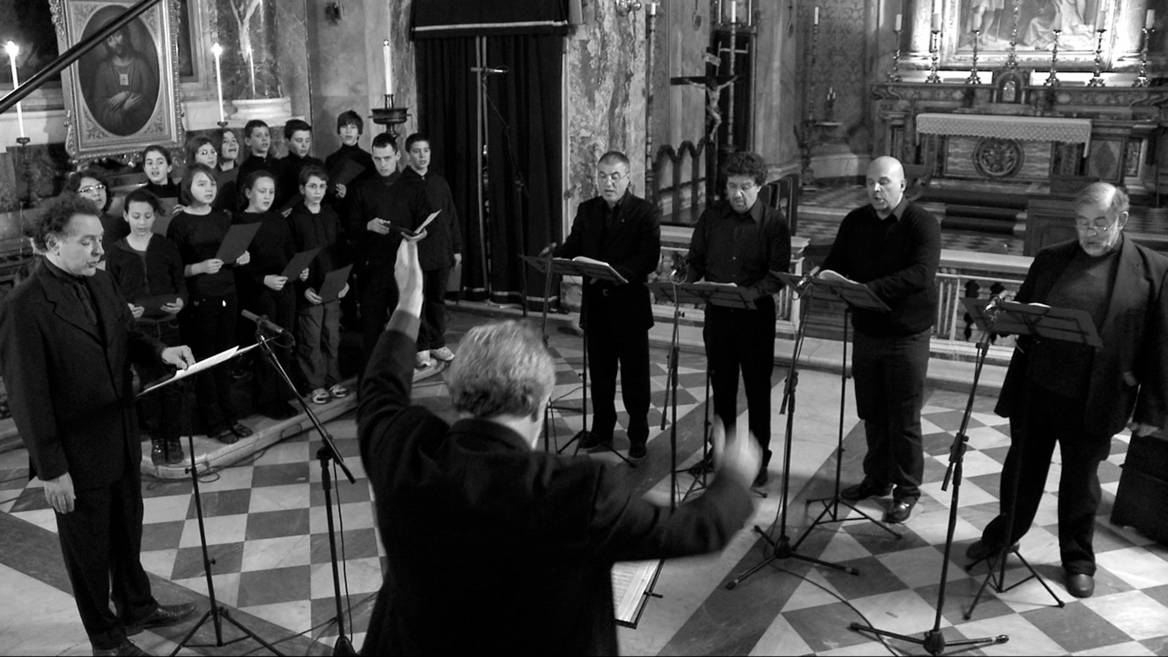 Flavio Colusso directing the Ensemble Seicentonovecento in the film "Palestrina - Prince of Music"